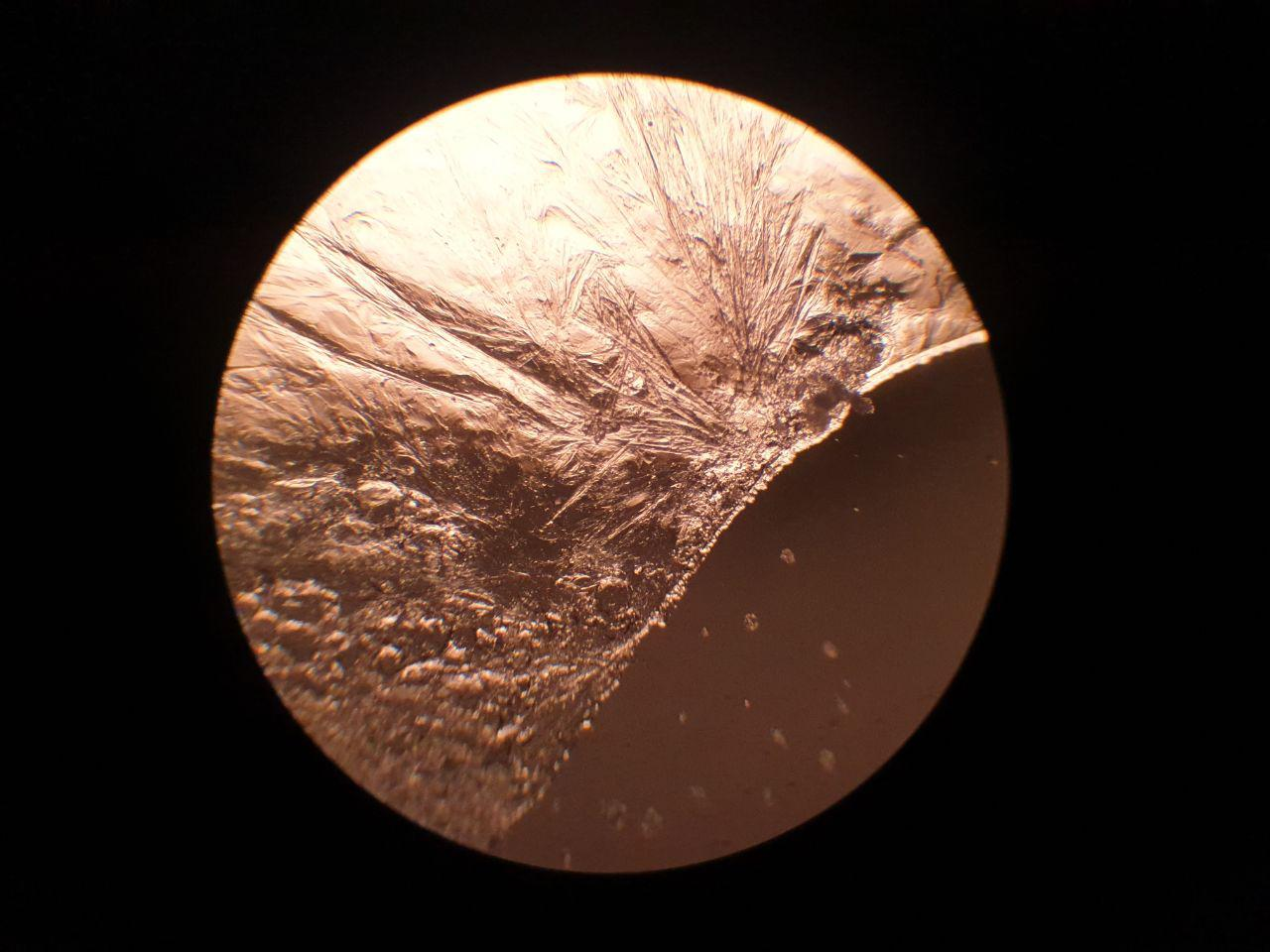 The crystal structure of magnesium-sulfate in the aqueous phase, under the microscope, as an experiment to observe the formation and "growth" of ionic compound crystals.